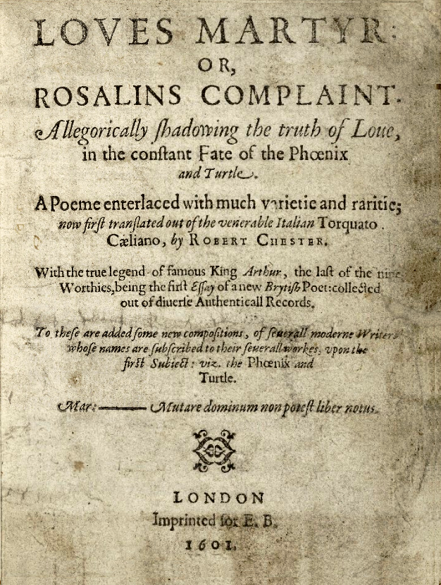 Title page of Loves Martyr published in London, 1601